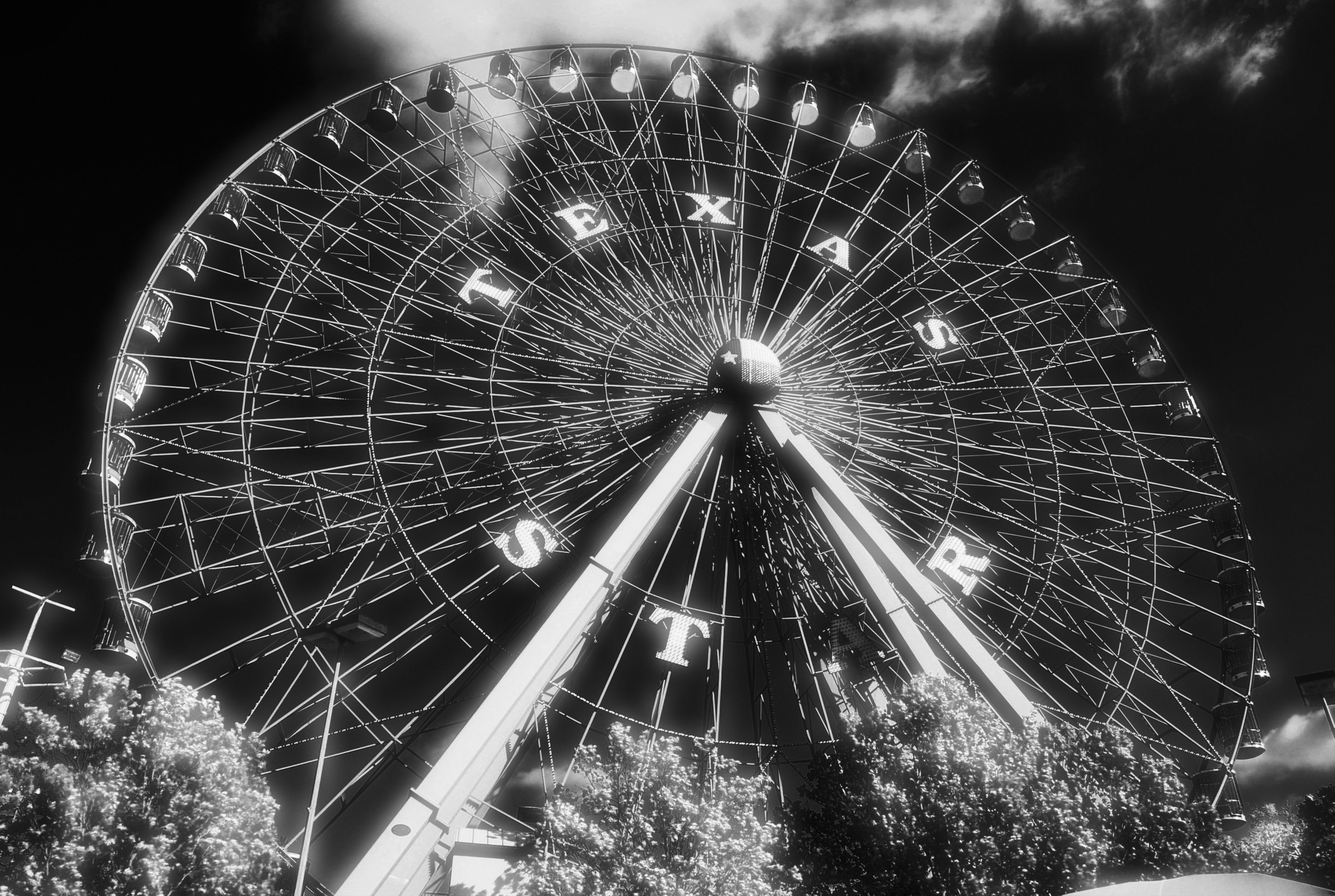 Texas Star Black and White, At the State Faif of Texas, in Dallas.